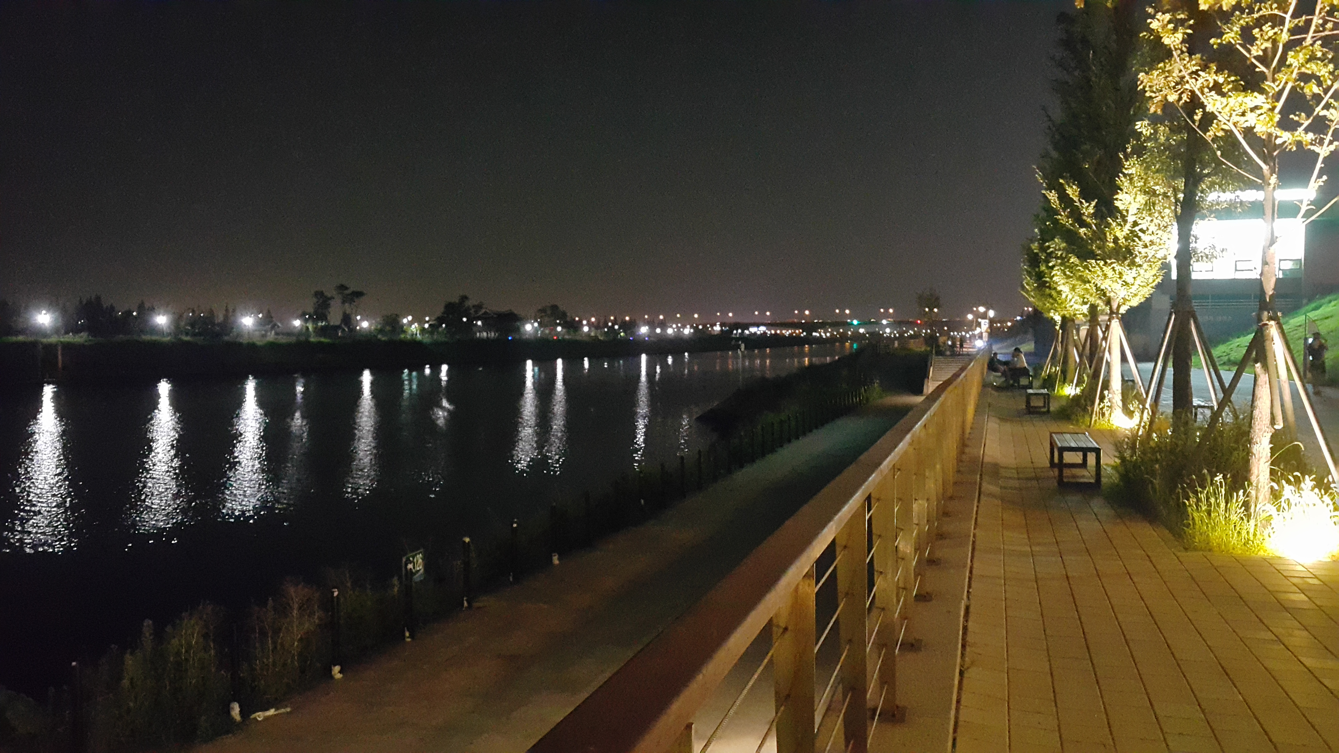 Night view of riding road